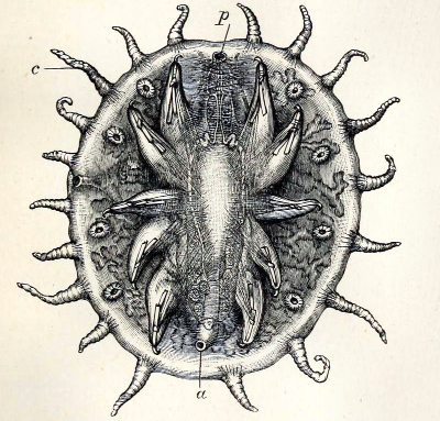 Anatomyof a Myzostoma Leuckart, 1829; Myzostomidae; c) marginal extensile cirri; within these and on the ventral surface are four pairs of suckers, and more internally five pairs of appendages each bearing two hooks; the proboscis (p), the digestive tract and its ramifications, and the reproductive organs are outlined as if seen through a transparent wall; a) anus